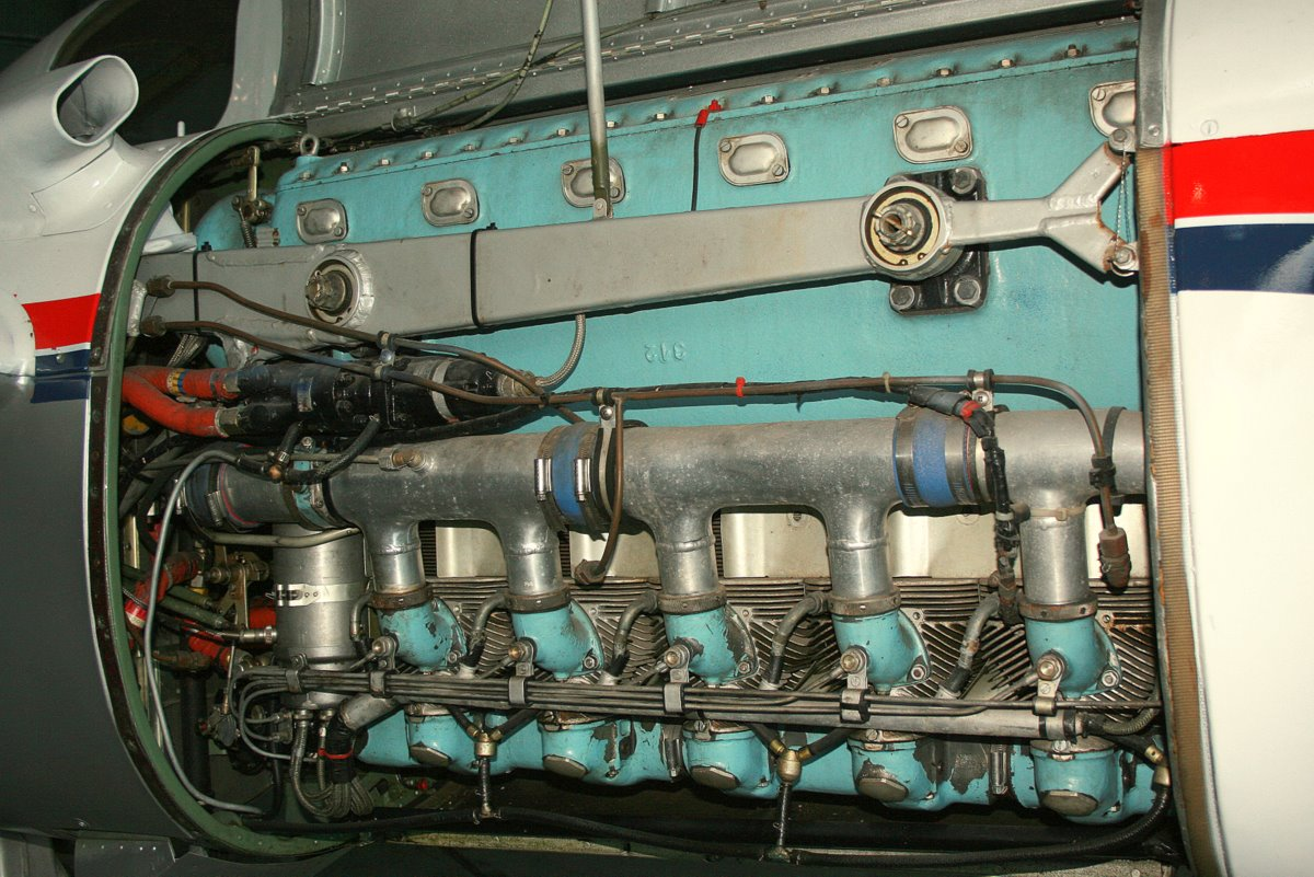 A Walter M337 engine mounted on the starboard wing of a LET L-200 Morava.